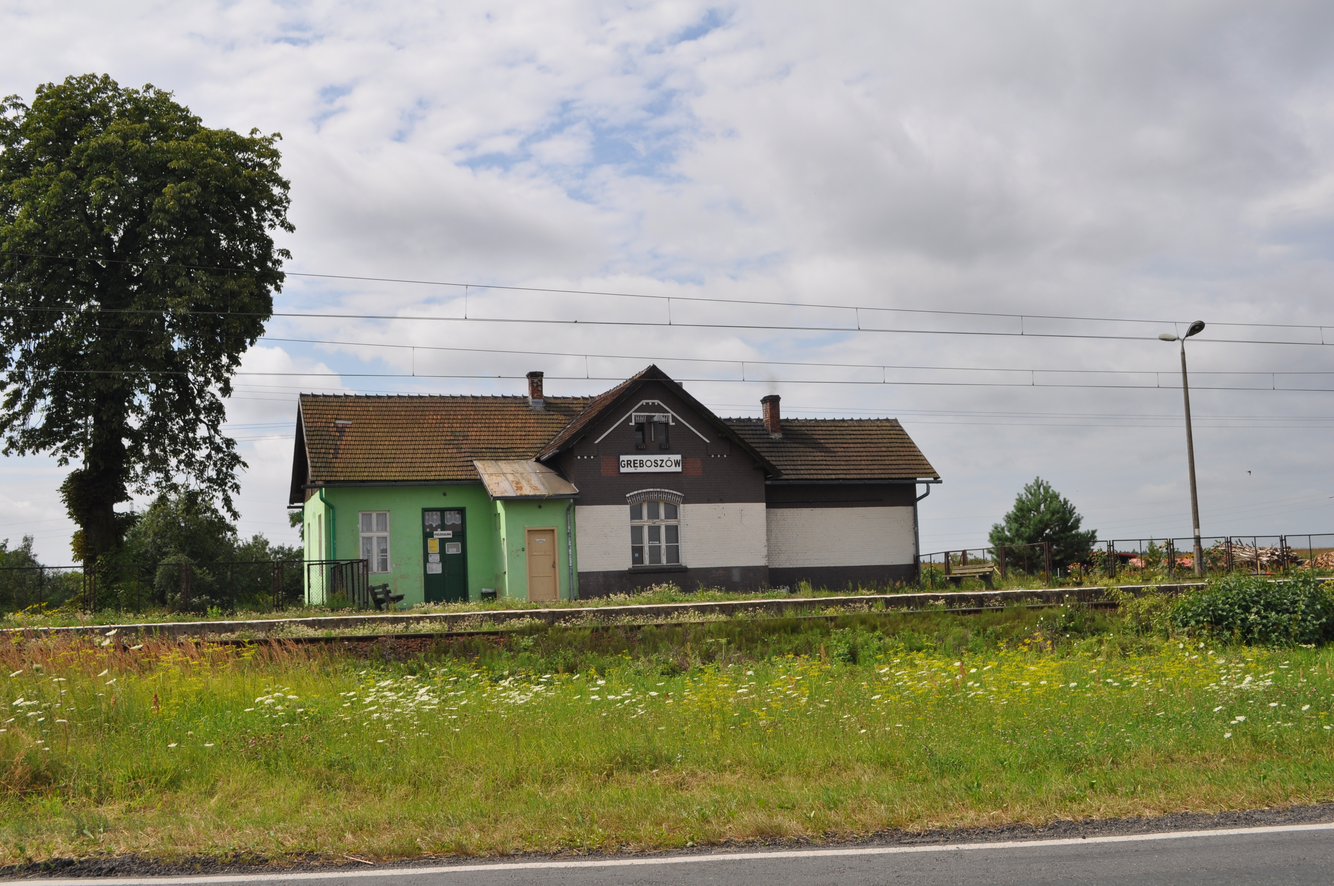 Train station in Gręboszów